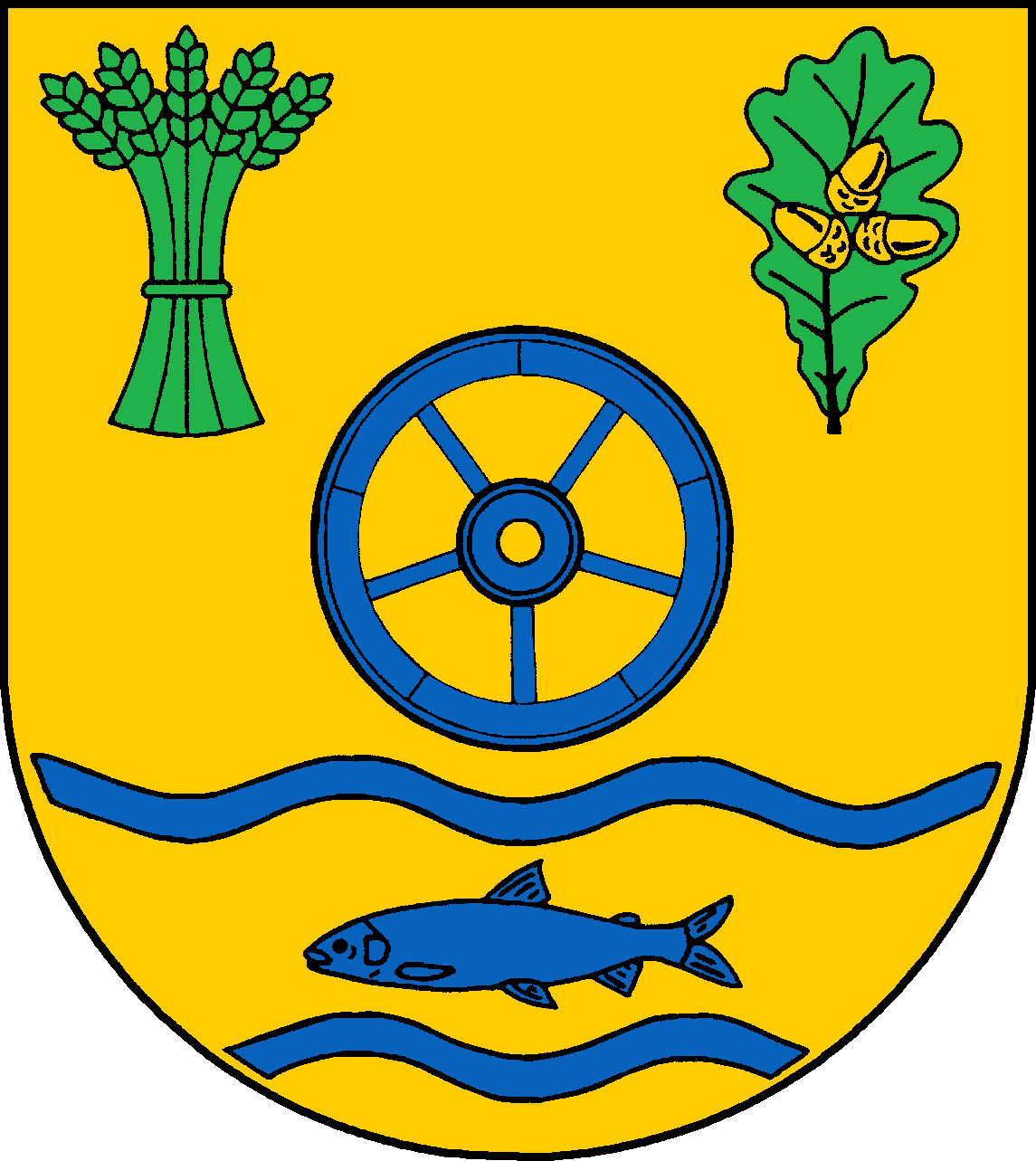 Coat of arms of the municipality Boren in Schleswig-Holstein, Germany.